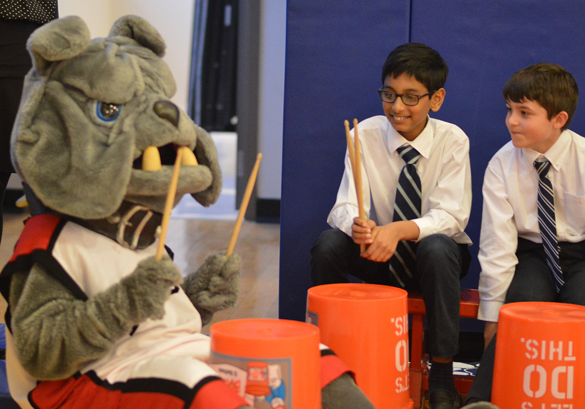 BISC Lincoln Park's mascot, Barkley the Bulldog.